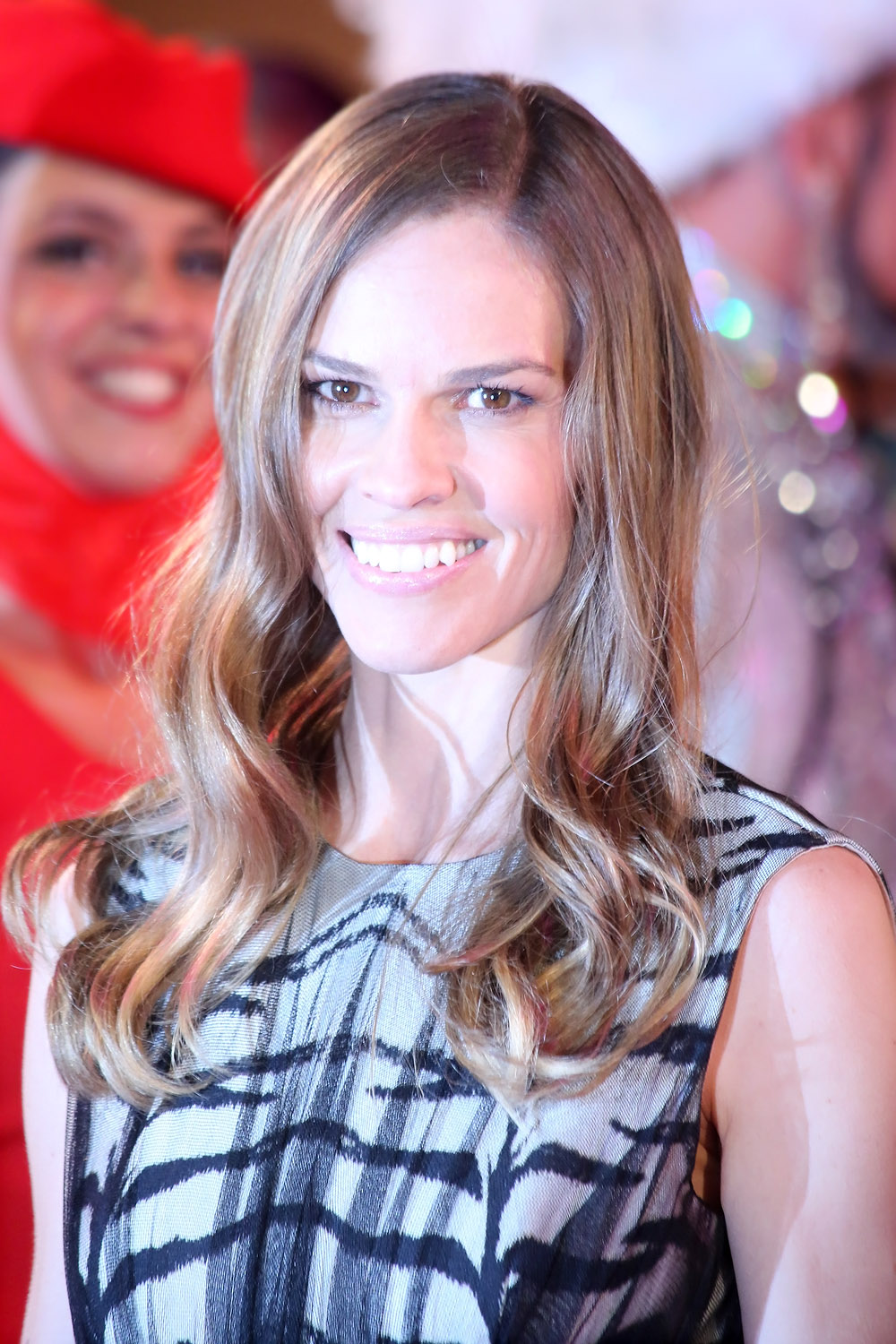 Hilary Swank on the 'magenta carpet' at Life Ball 2013 at the square in front of the city hall of Vienna, Vienna, Austria.